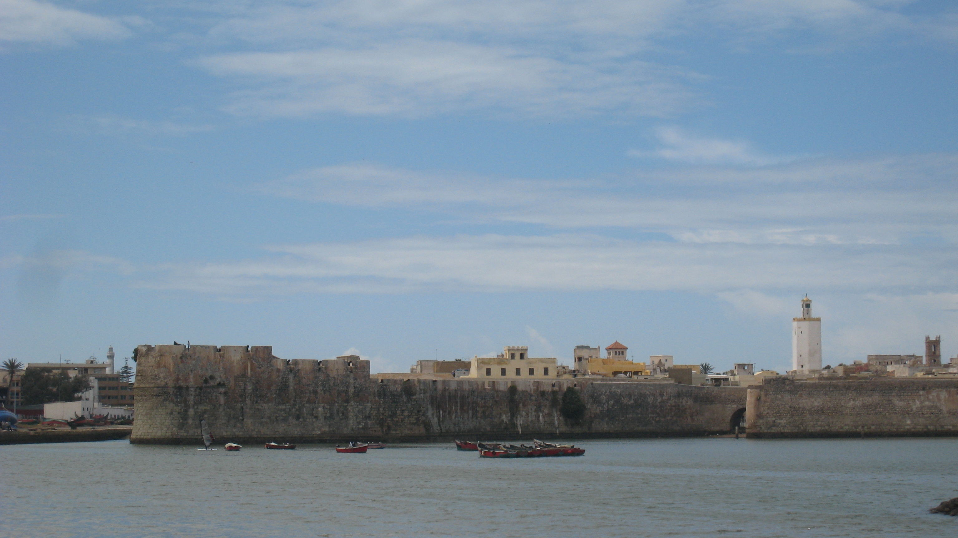 El Jadida from sea.